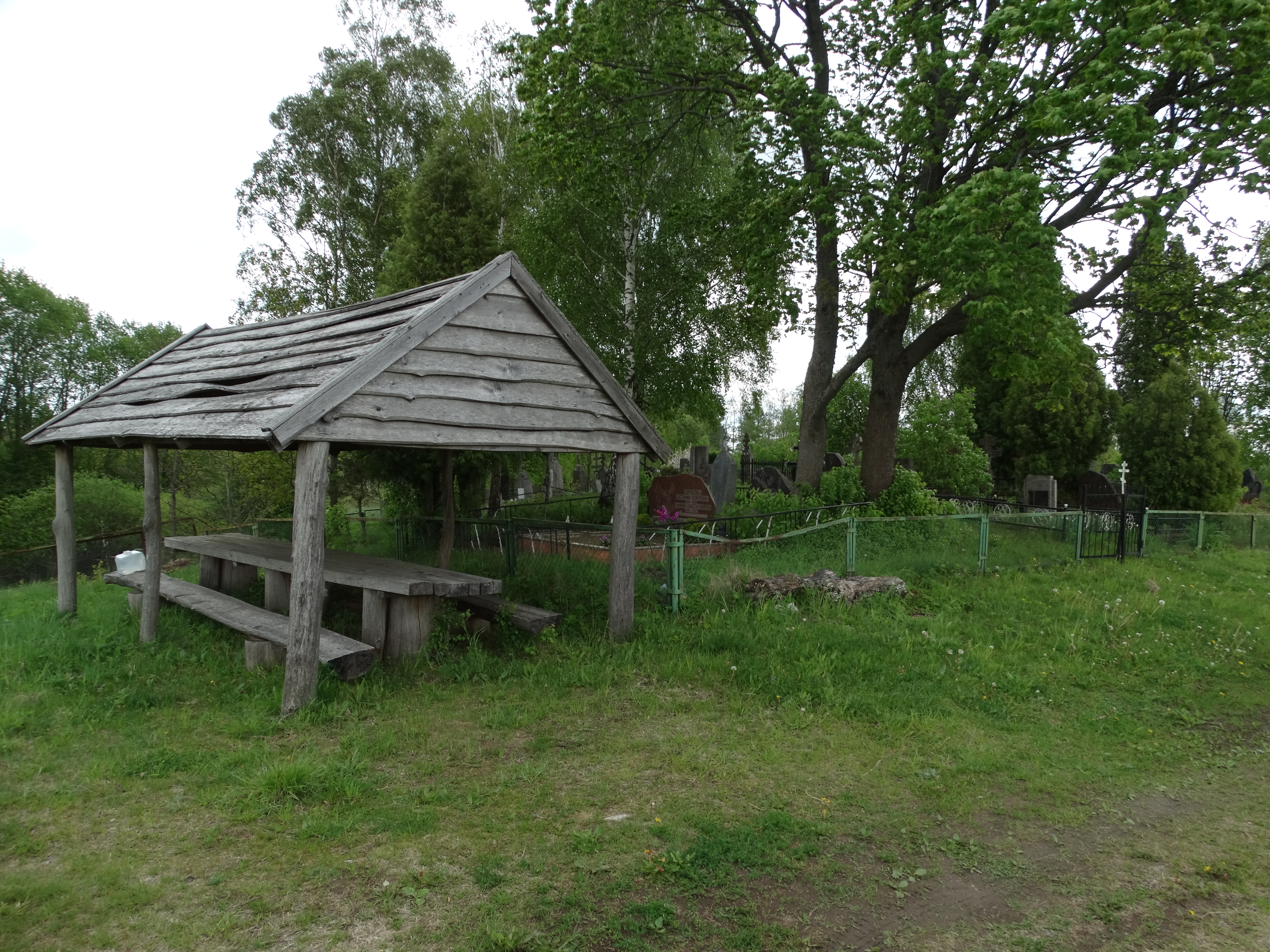 Orthodox cemetery of Old Believers, Migiškiai, Molėtai District, Lithuania